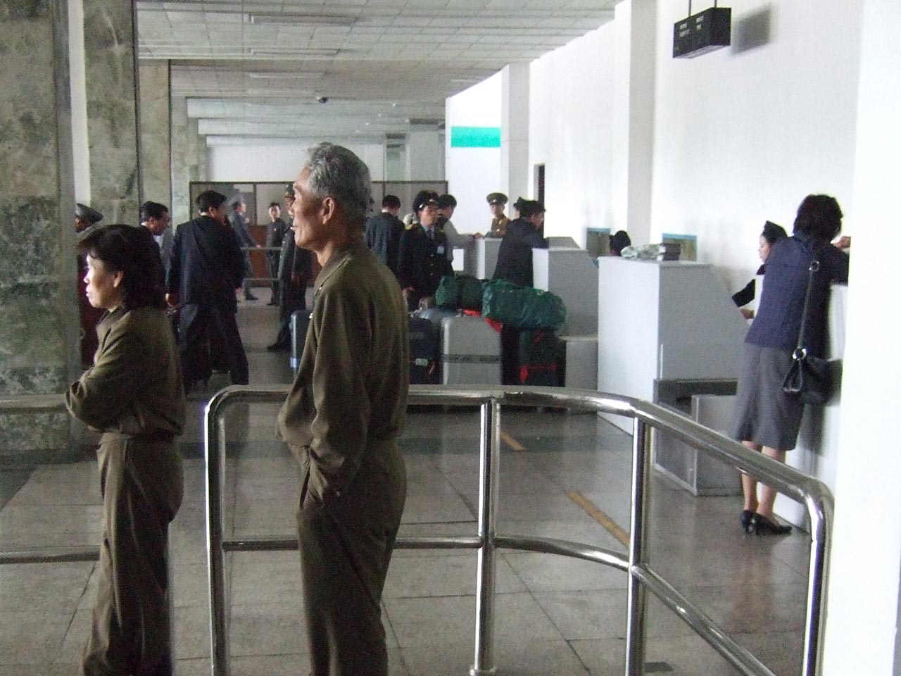 Pyongyang Sunan International Airport check-in counter